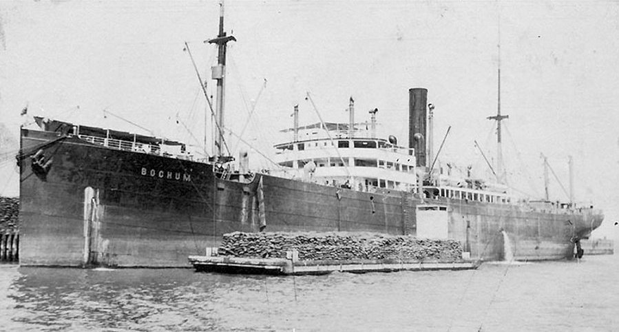 Seems it is mistake in the date and, as result, another steamer Blochem depicted on this photo. Like it is Blochem, which was built in 1921-1922 years, which after Second world war was renamed General Chernyahovsky and joined the Soviet Union merchant fleet, Black Sea Shipping Company fleet, in 1946.[1] Finally we can say that two steamers Blochem were in Germany fleet: one was used during First World War and seized by French; another one was used during Second world war. This ship is the second one.